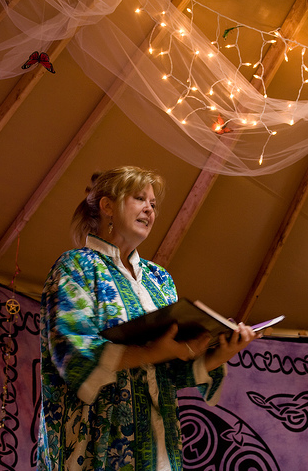 Wiccan priestess preaching in temple.